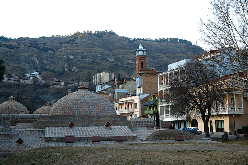 Abanotubani or Bath District of Tbilisi